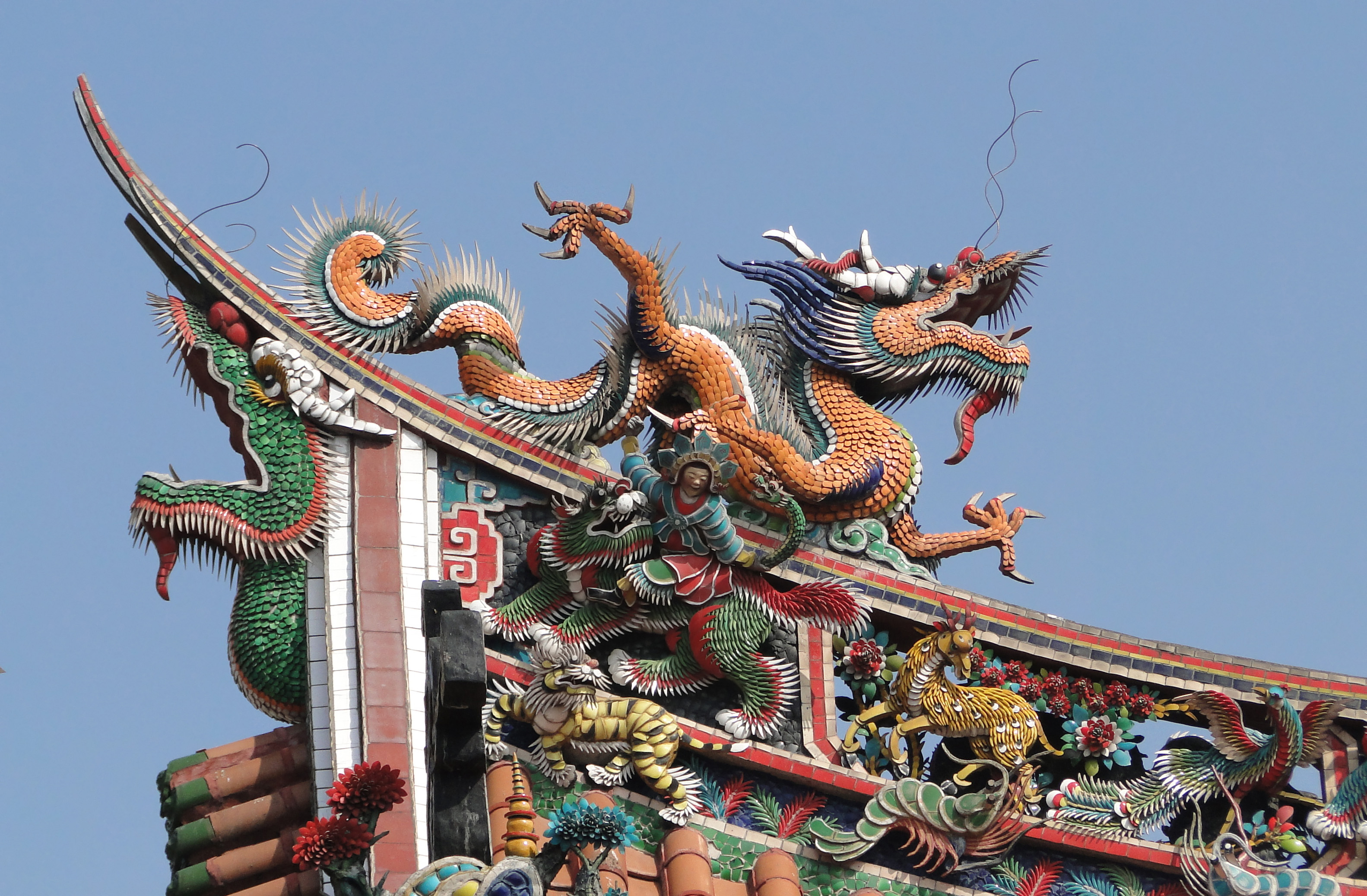 Dragon on the roof of the Main Hall of the Mengjia Longshan Temple in Taipei, Taiwan